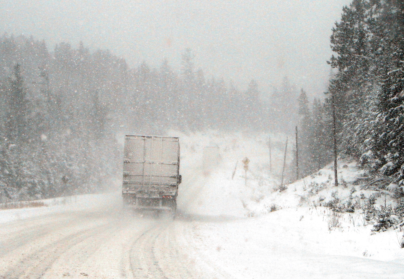 Winter snowstorm on Highway 11, near Temagami, Ontario, Canada